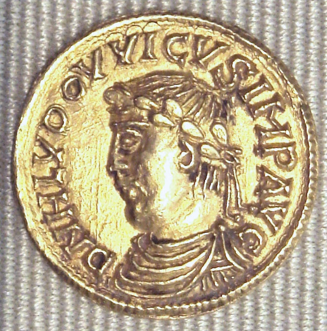 Louis_le_Pieux_sesquisolidus_814_840